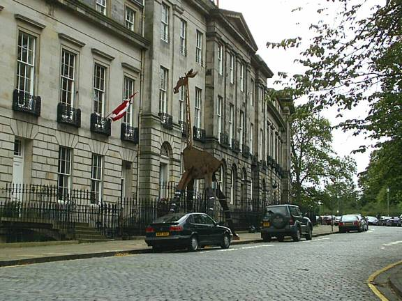 A Giraffe outside the Danish consulate, Gloucester place, Edinburgh.